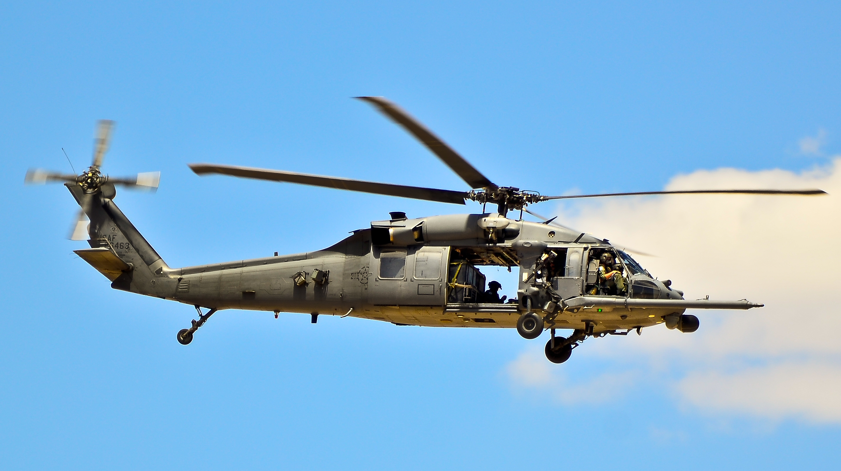 North Las Vegas Airport (IATA: VGT, ICAO: KVGT, FAA LID: VGT) Photo: Tomas Del Coro July 12, 2011